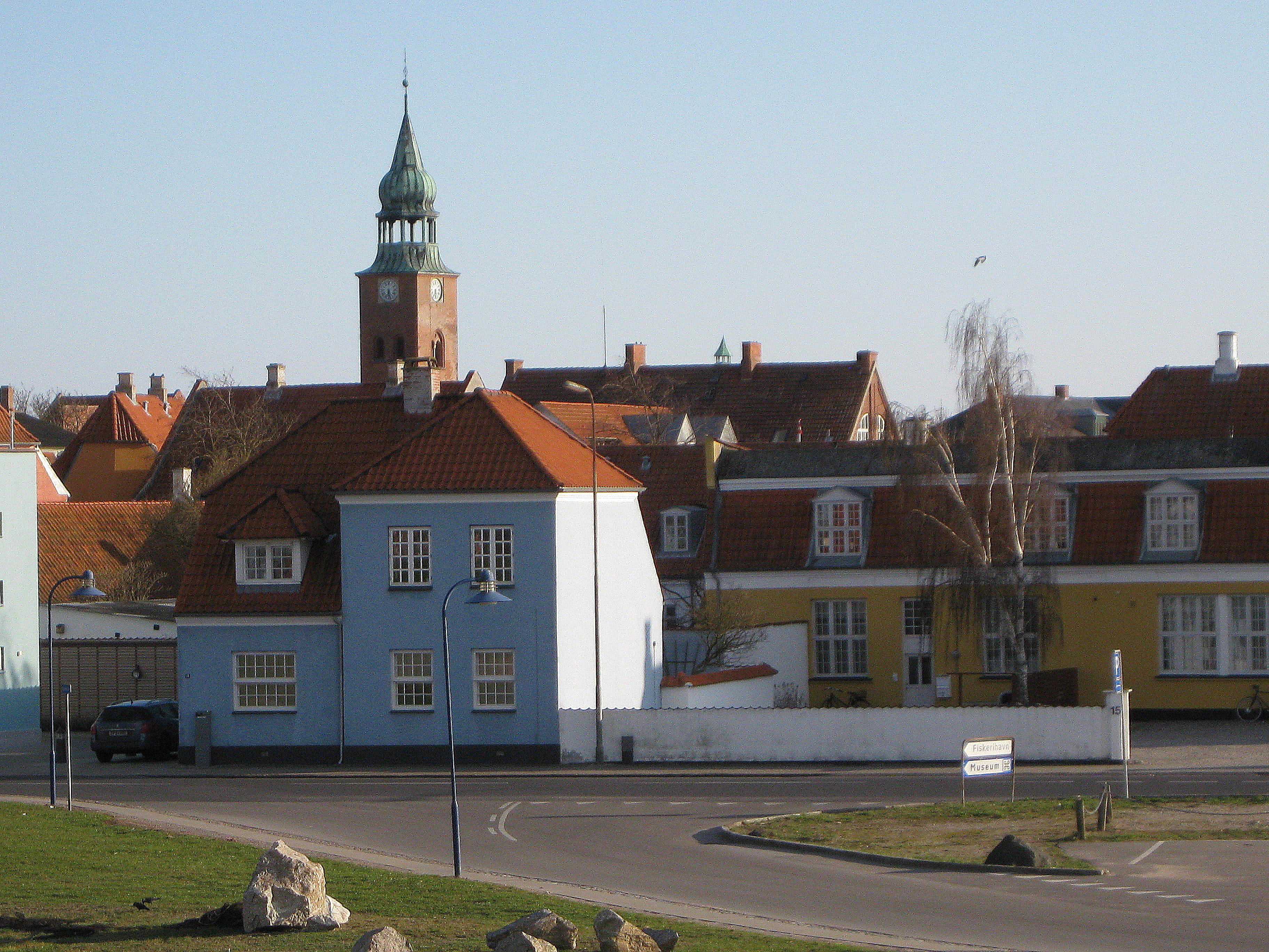 A view over the town Korsør with the church "Sankt Povls Kirke" in the background. The town is located in West Zealand, Denmark.